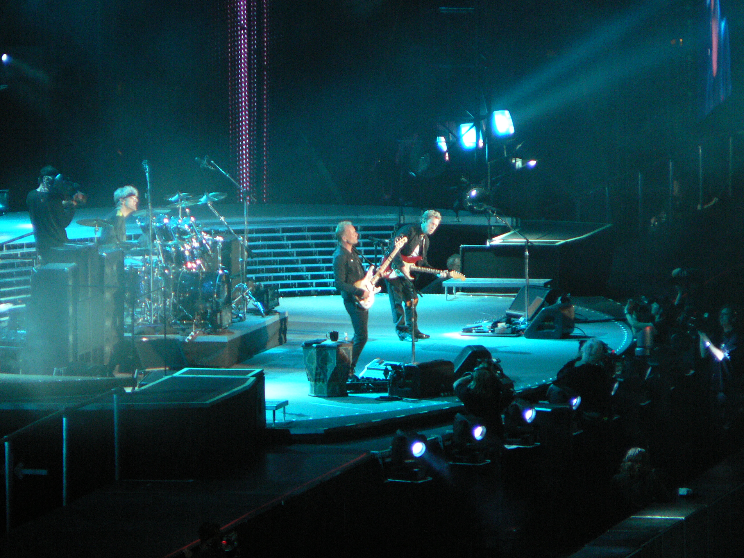 The Police